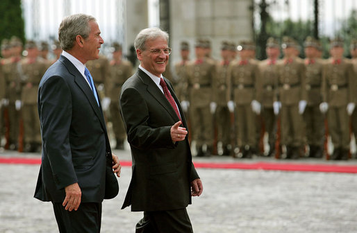 Hungarian President Laszlo Solyom and President George W. Bush review the Hungarian troops during an arrival ceremony at Sandor Palace in Budapest, Hungary. White House photo.